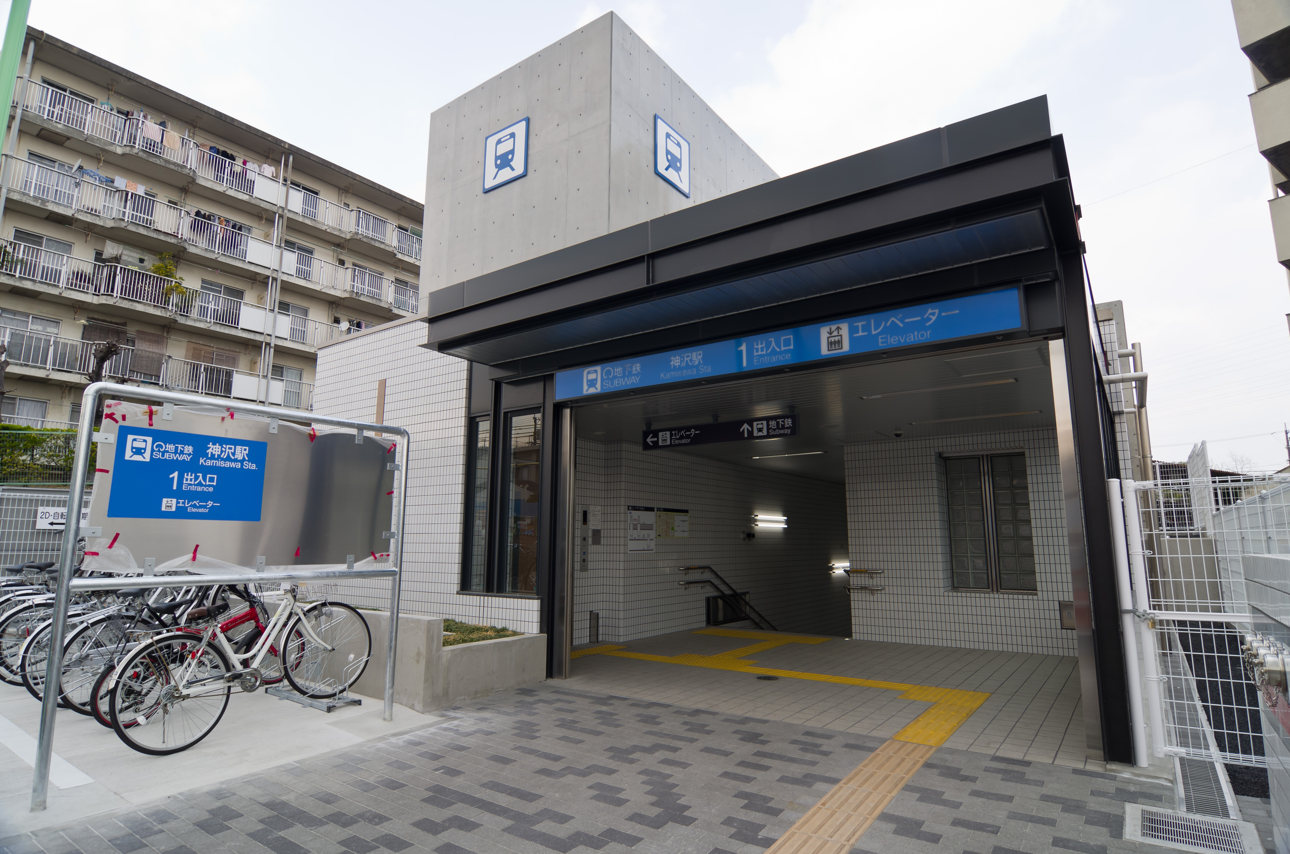 Kamisawa Station on the Nagoya City Subway Sakura-dori Line.